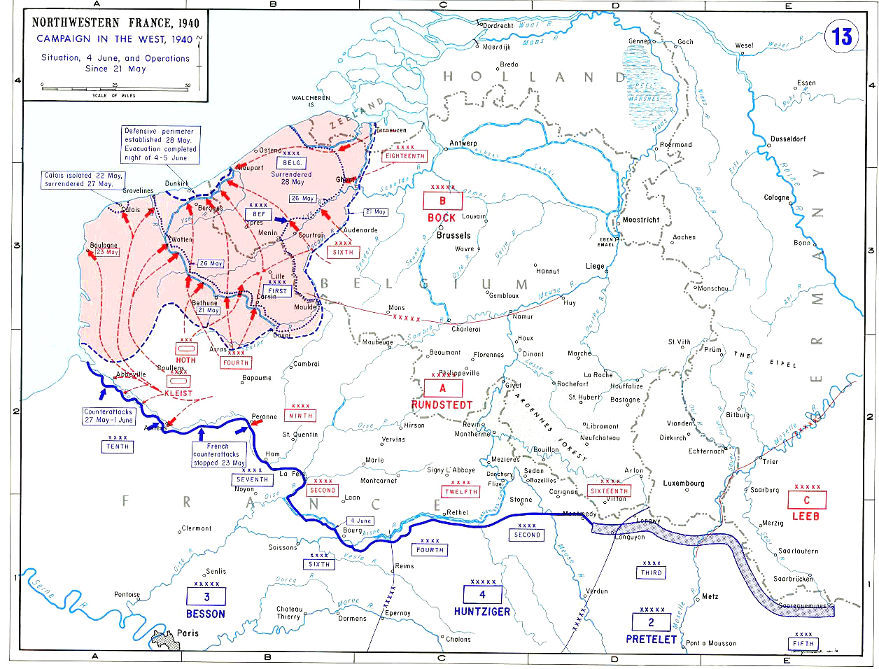 Northwest France, 1940. Situation on 4 June, with operations since 21 May.